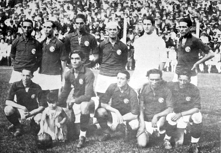 Brazilian "America Football Club" team of Rio de Janeiro that toured on Argentina in 1929.